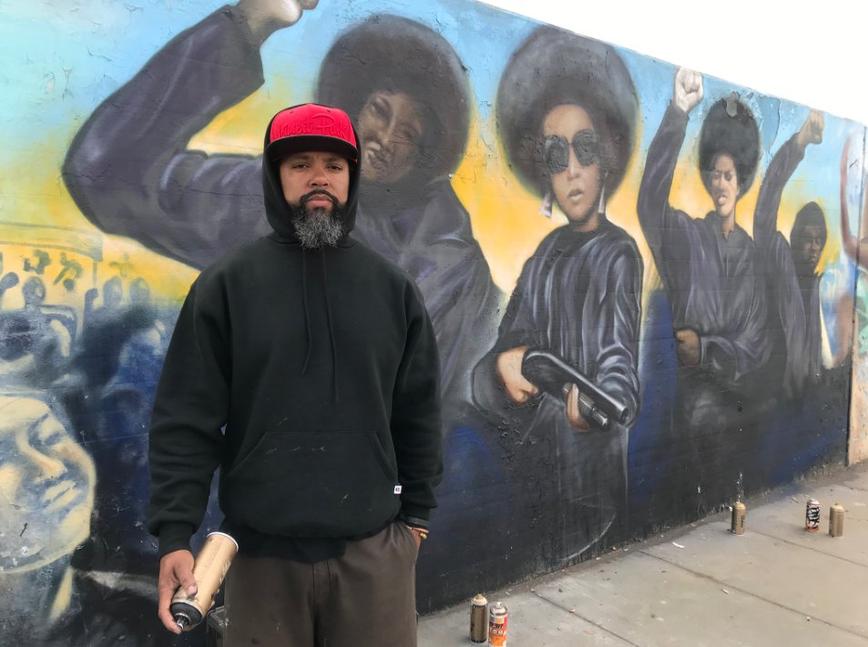 The mural on Crenshaw was restored soon after it was vandalized. The people will always win. Thank you, Enkone!